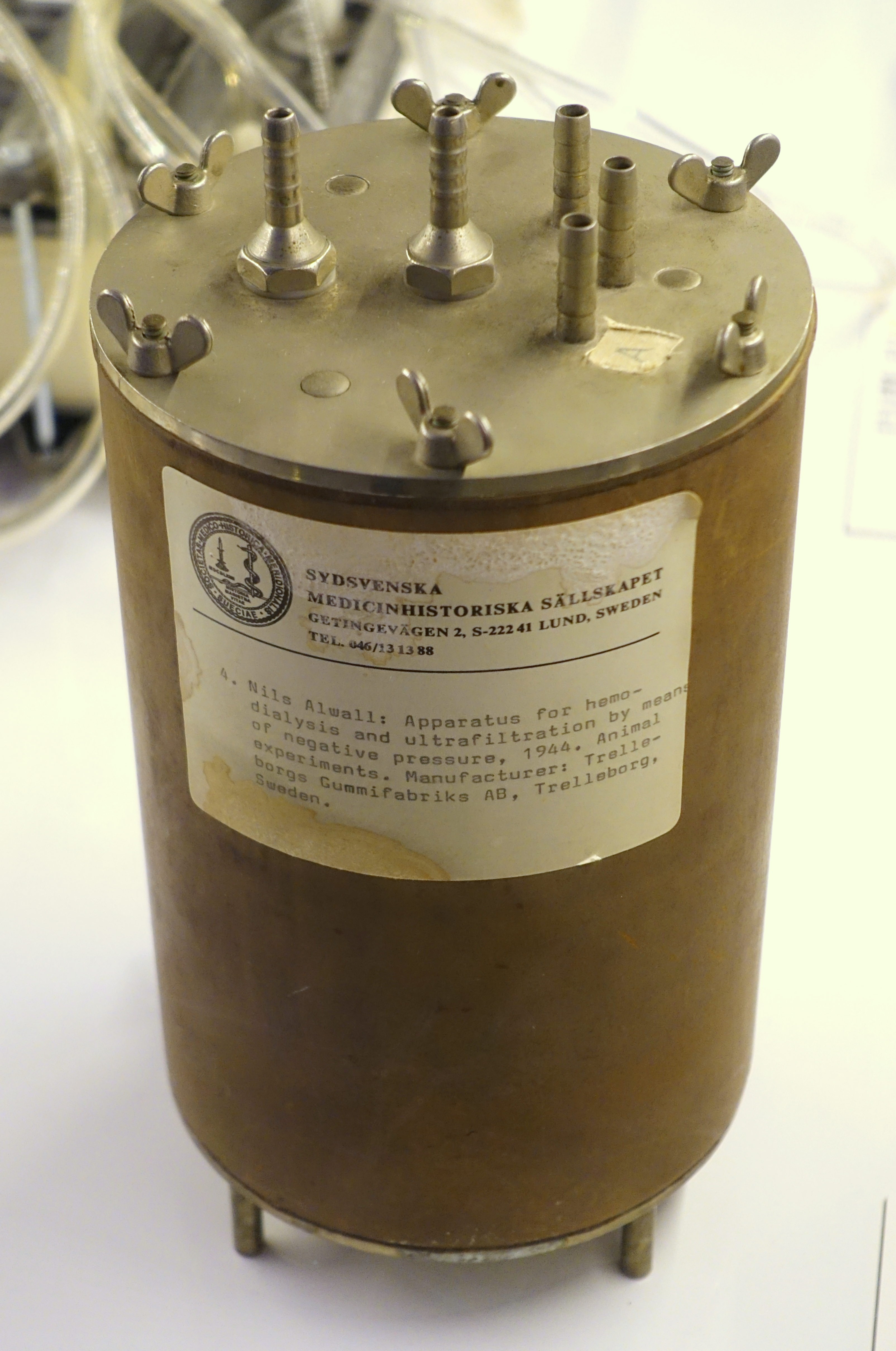 Exhibit in the Tekniska museet, Stockholm, Sweden. This work is old enough so that it is in the public domain.